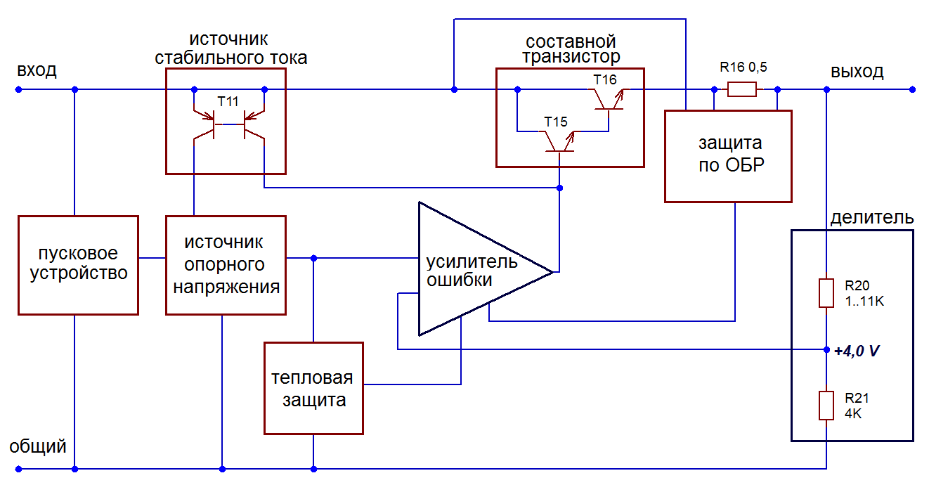 block diagram of a 78** regulator circuit (in Russian). Values and part codes correspond to the Fairchild Semiconductor 78** datasheet